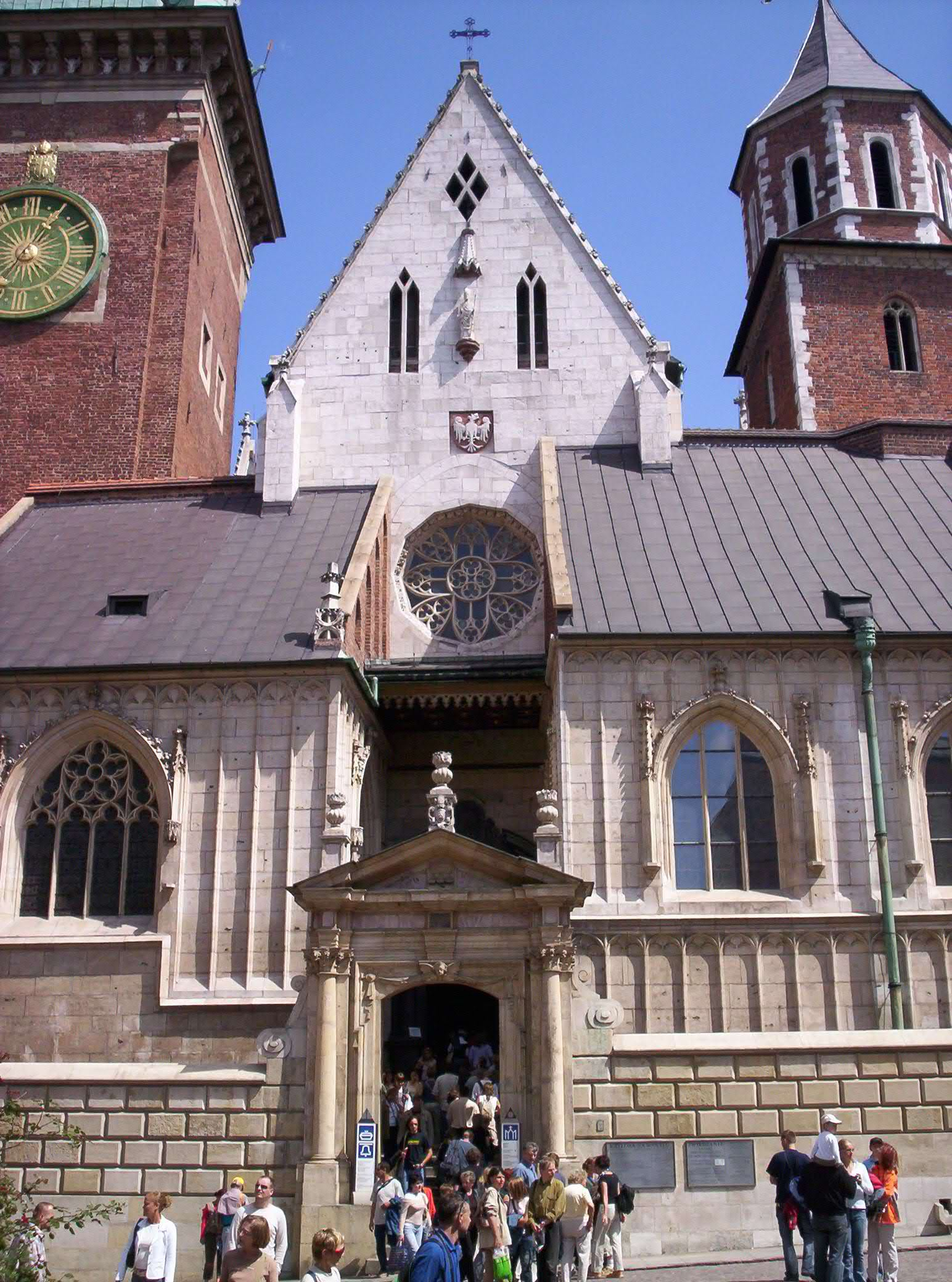 Wawel's Cathedral Façade